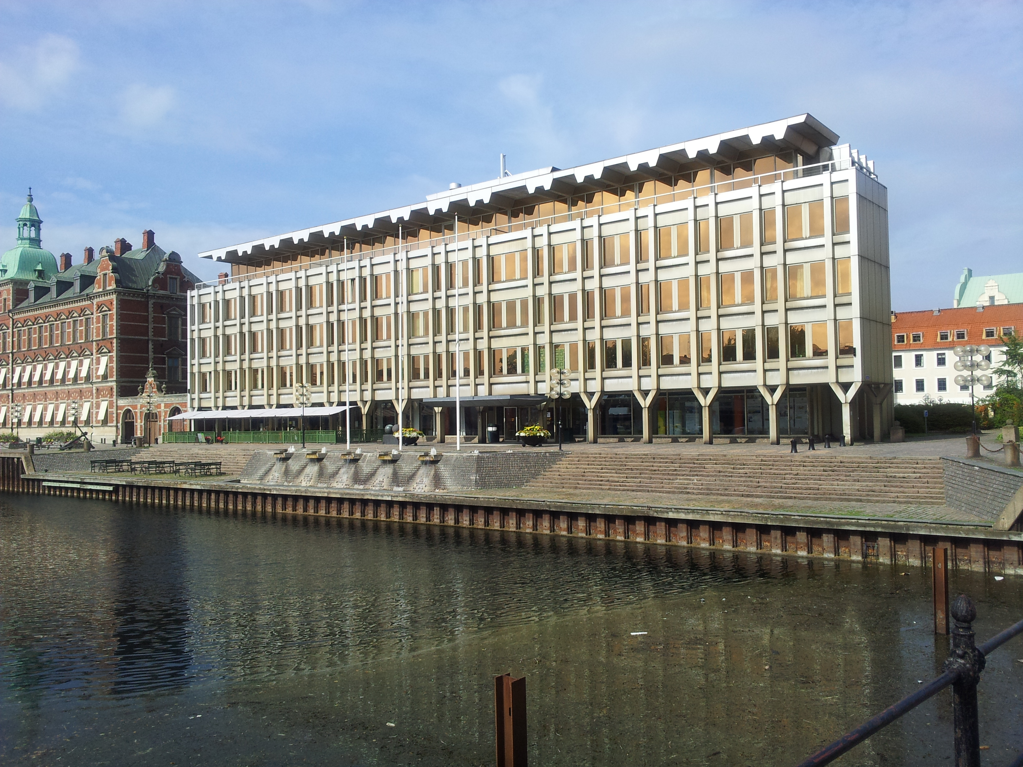 Landskrona municipal building